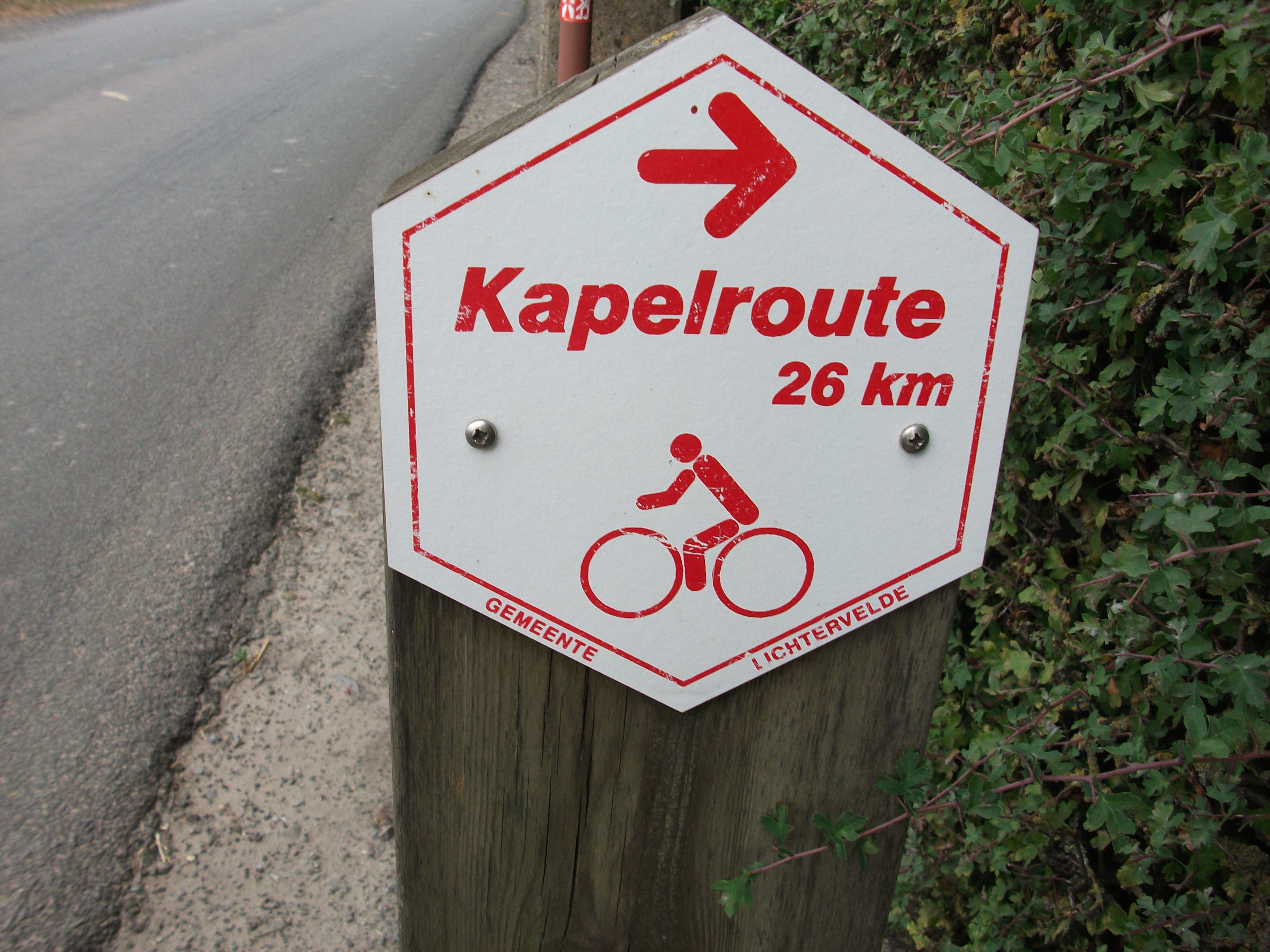 cyclingroute sign of the kapelroute in Lichtervelde (West-Flanders)